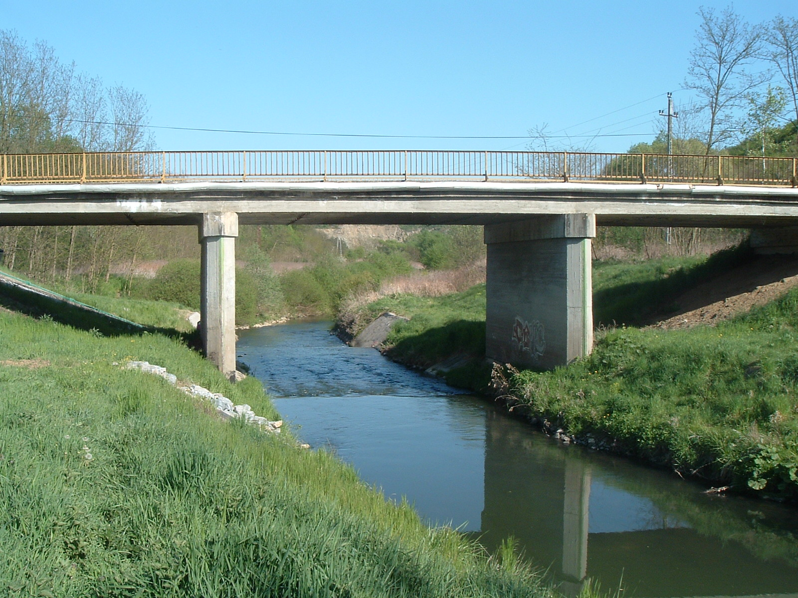 The Pinka river at Felsőcsatár, Hungary